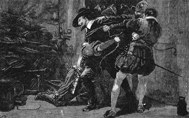 The Gunpowder Conspirators are discovered and Guy Fawkes is caught in the cellar of the Houses of Parliament with the explosives.